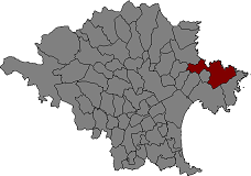 Location of el Port de la Selva in Alt Empordà